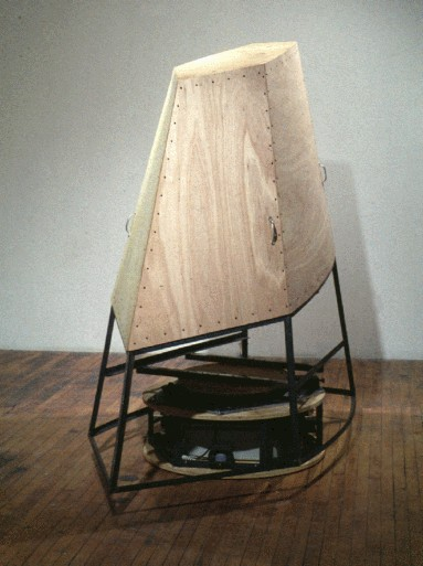 The Helpless Robot, a work by Canadian artist Norman White